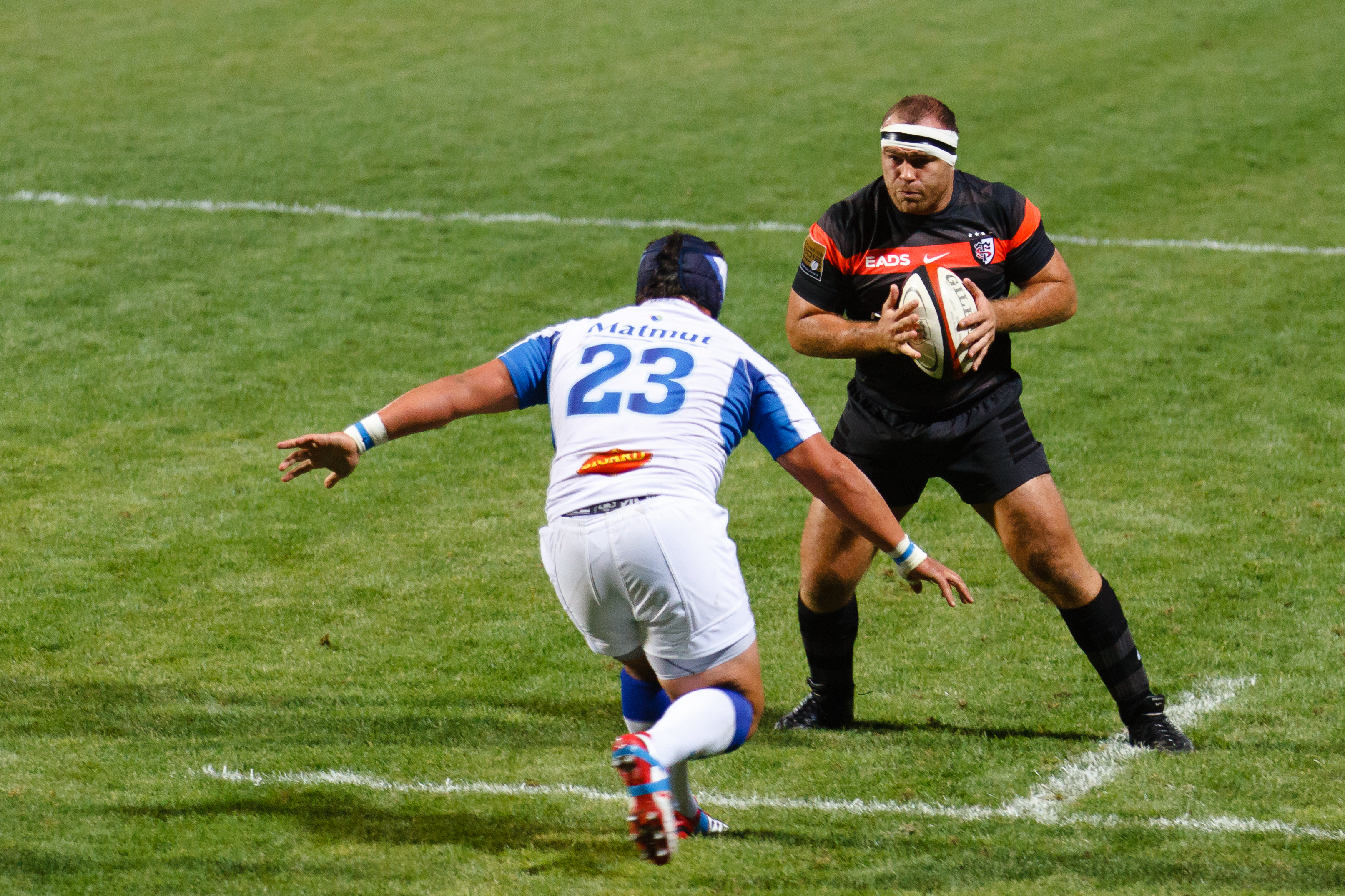 Jean-Baptiste Poux challenges number 23 from Castres Olympique